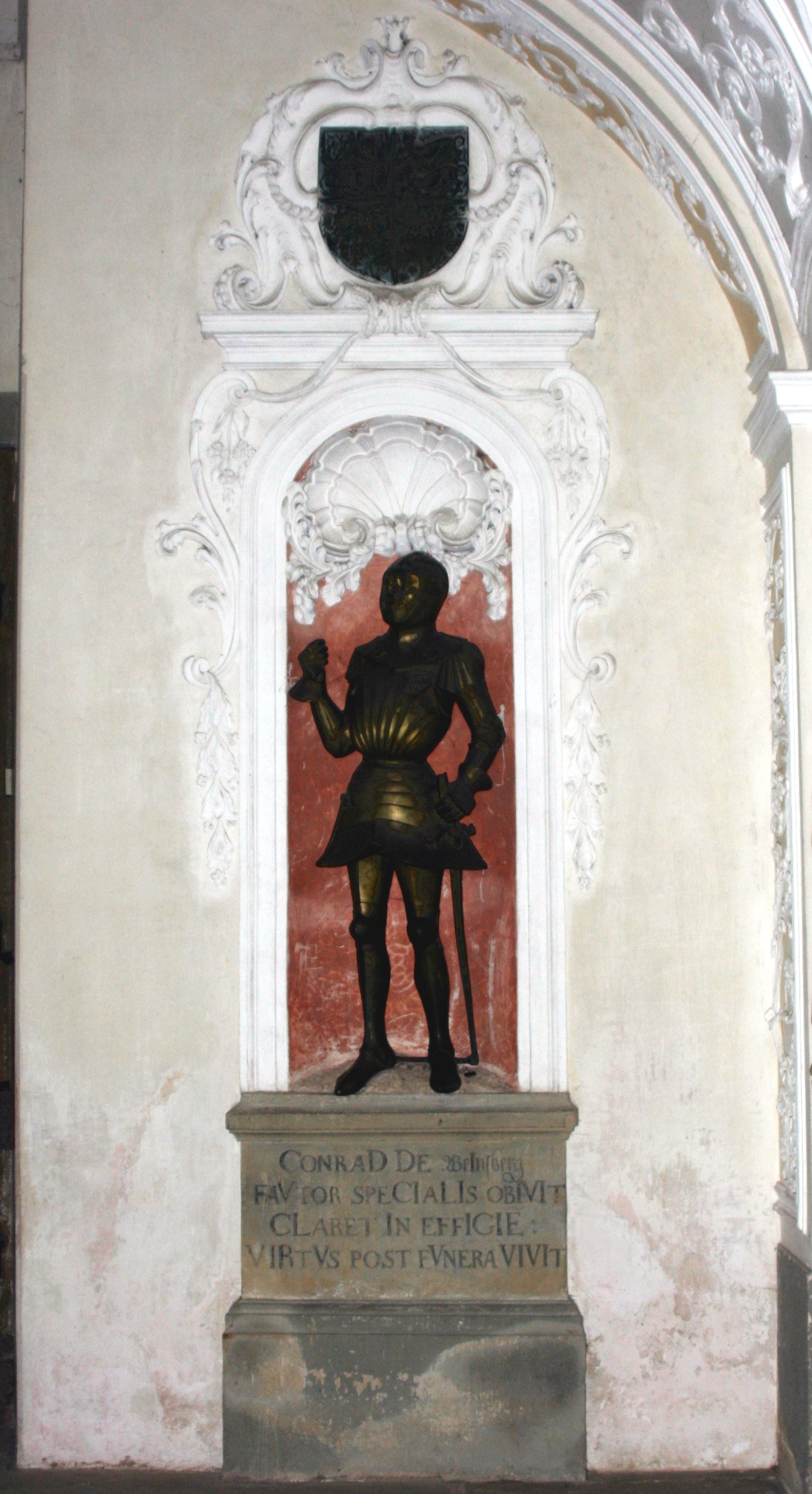 Statue of Konrad (IX.) von Weinsberg in the church of Schöntal monastery